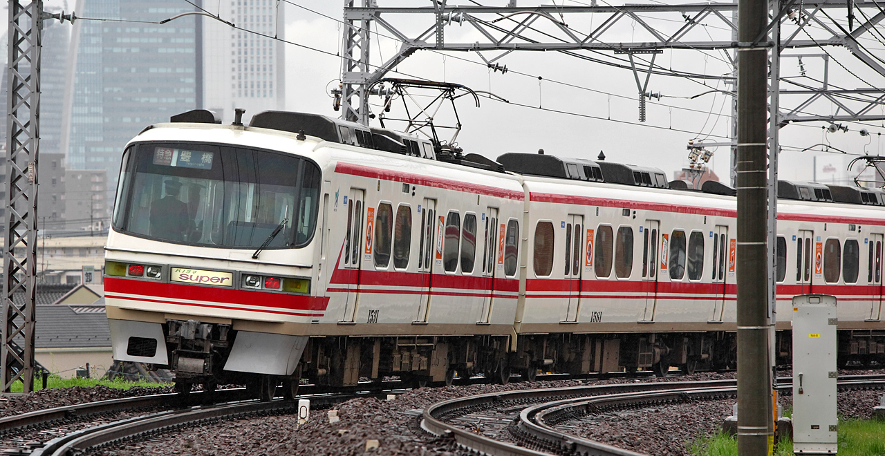 Meitetsu "Panorama Super" 1230 series EMU set 1131 between Nishi-Biwajima and Higashi-Biwajima stations